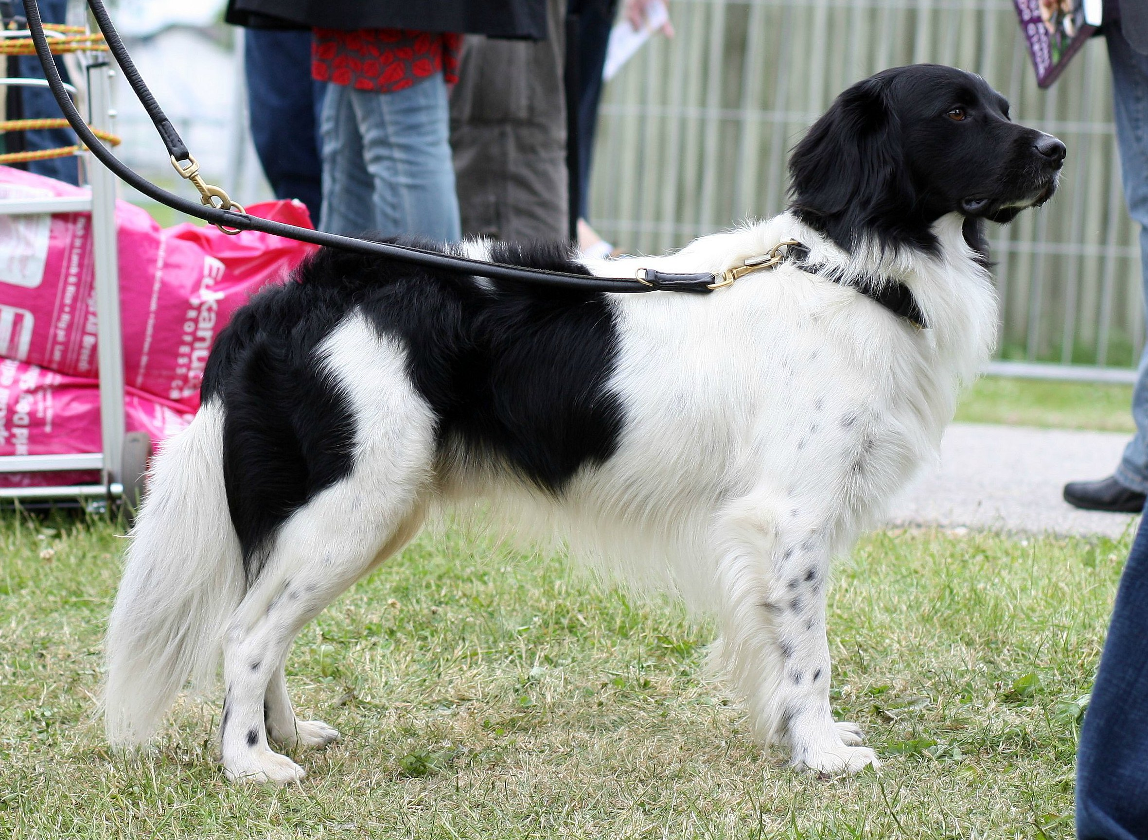 Stabyhoun dog